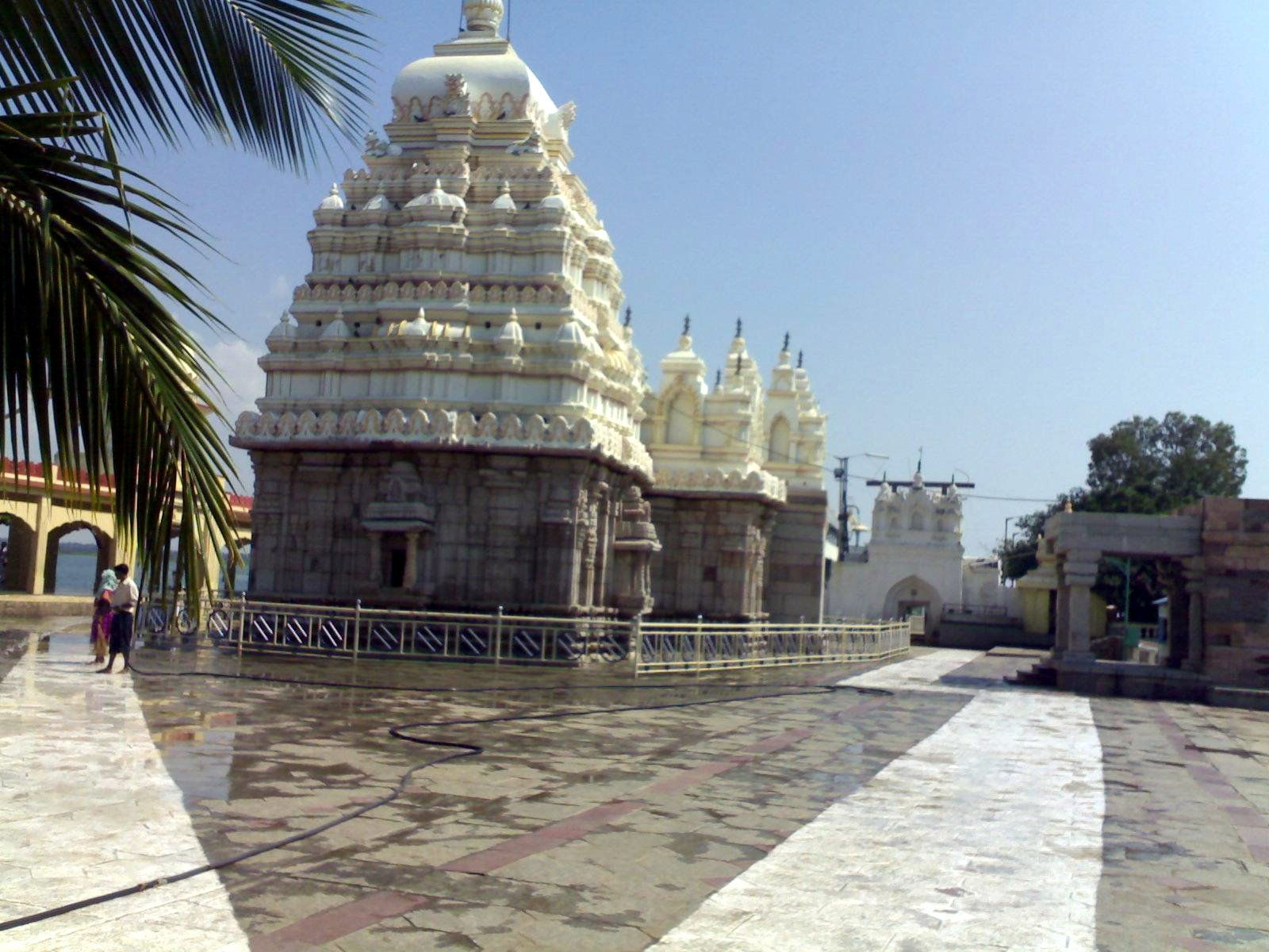 Kudalasangama, North Karnataka Source and Author : Manjunath Doddamani, Gajendragad / Hubli, Karnataka(India) This is very Hot Place.